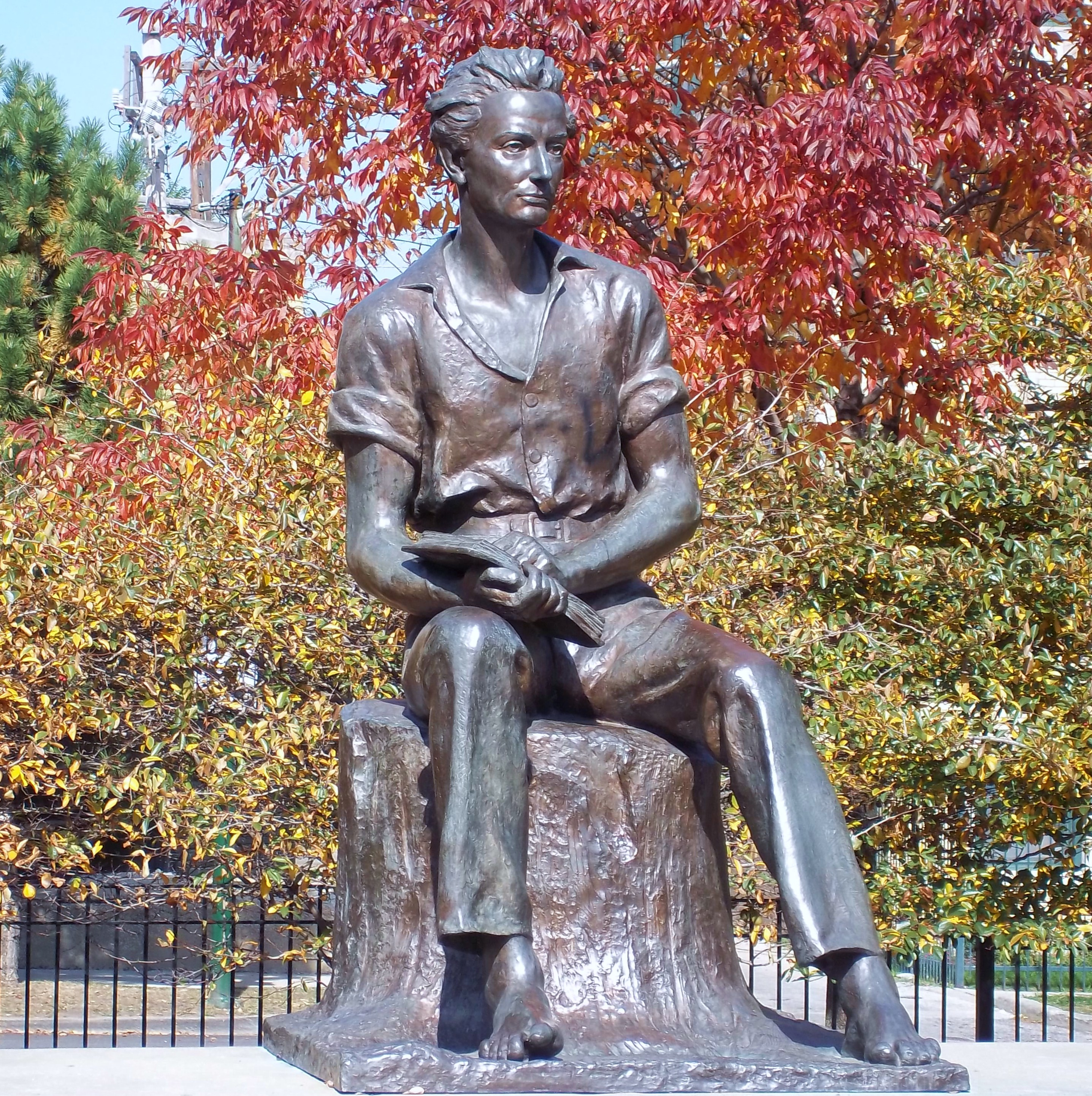 Statue of "Young Lincoln" first displayed-published 1945. Now in Senn Park, Edgewater Chicago.